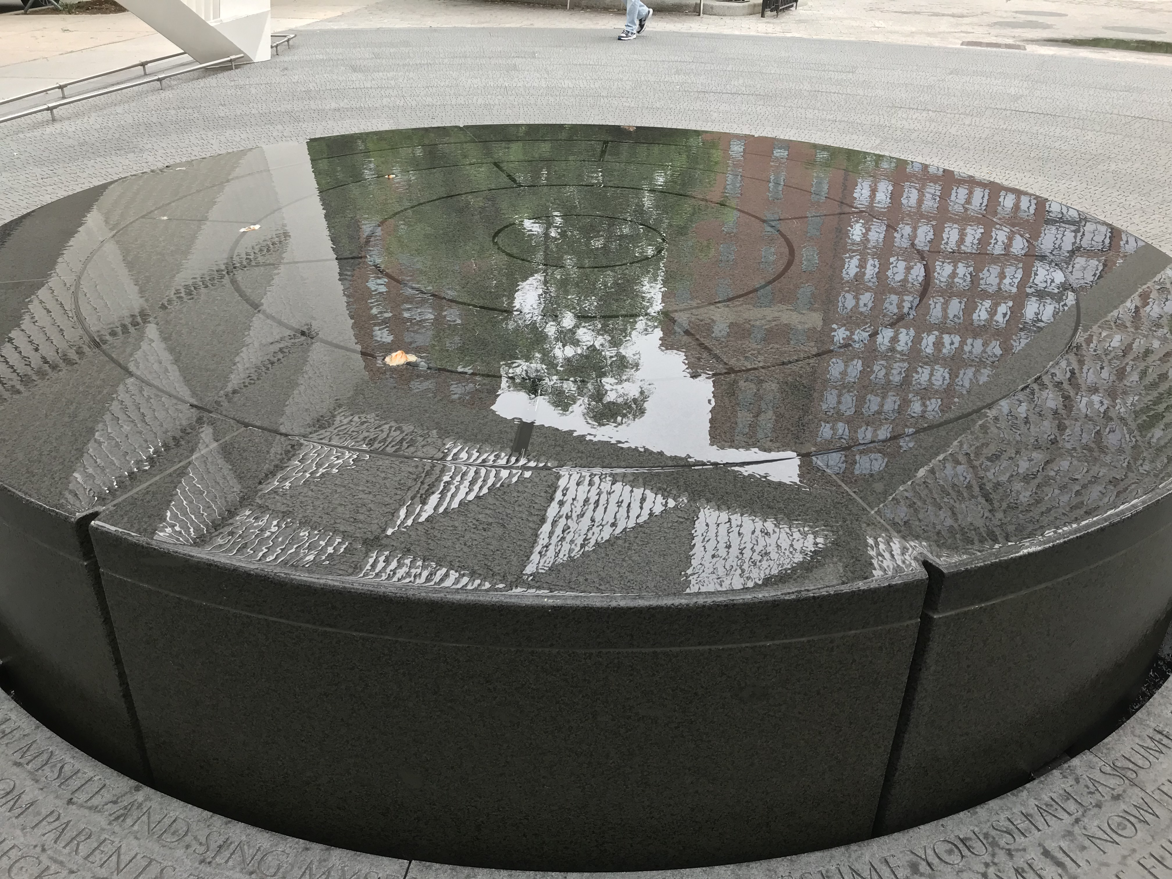 NYC AIDS Memorial Park reflecting fountain at St Vincent's Triangle in Greenwich Village.Locality: New York CityTheme: This demonstrates public support of LGBT rights and place in history as connected with NYC Parks.